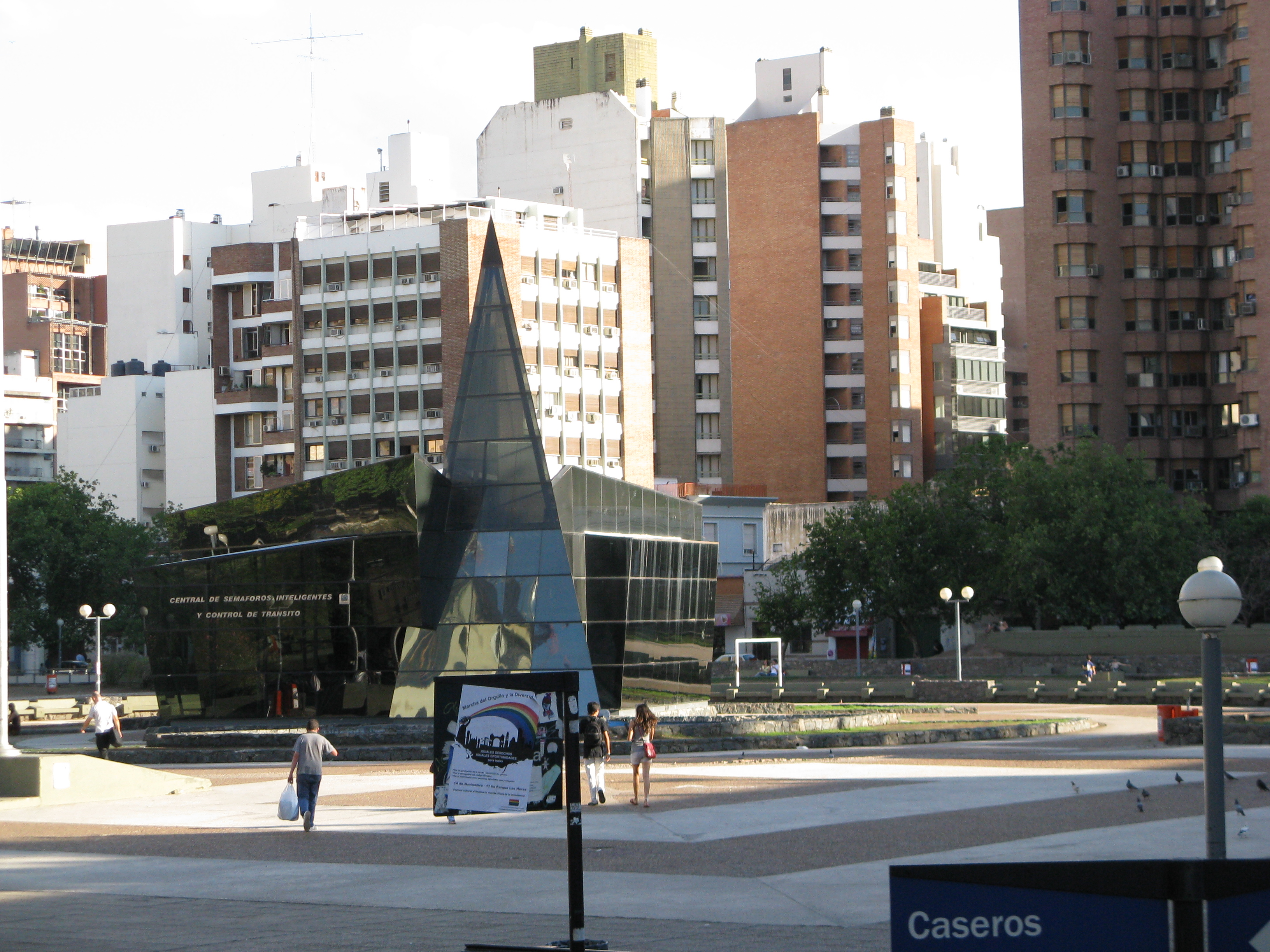 Quartermaster square. Cordoba, Argentina.